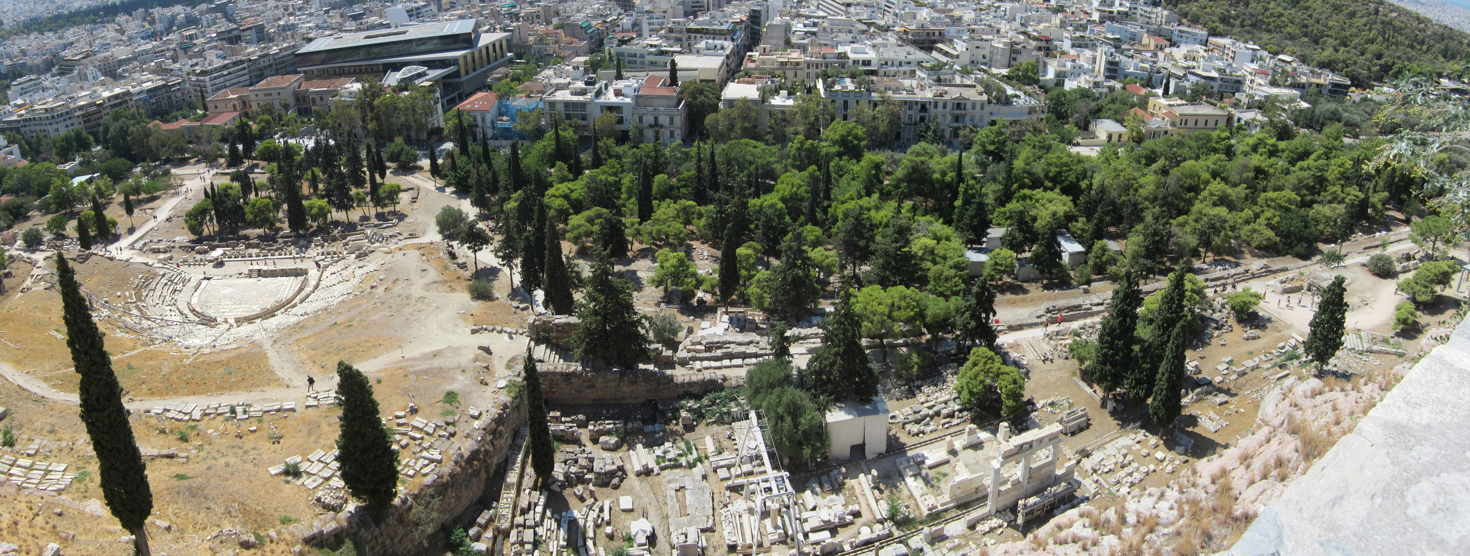 The south slope of the Acropolis, Athens. Front left: The theatre of Dionysos. Back left: The New Museum of Acropolis. Center: The sanctuary of Asclepius.